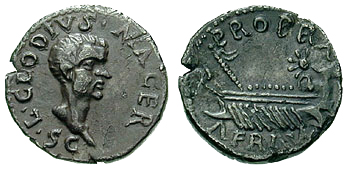 Clodius Macer. April-October 68 AD. AR Denarius (3.19 gm). Carthage mint. L CLODIVS MACER S C, bare head of Macer right PROFE AFRIC , galley with seven oarsmen sailing right. RIC I 39; BMCRE pg. 285 note; A. Gara, "La Monetazione di Clodius Macer," RIN (1970), pg. 67, 7 var. (number of oarsmen); Rev. K.V. Hewitt, "The Coinage of Clodius Macer," NumChron (1983), pl. 13, 59 (same reverse die; obverse die apparently unpublished); RSC 13b. Clodius Macer was the propraetor in Africa, and as opposition to Nero grew and the power of the central government dwindled, Macer acted as little more than a pirate, sweeping the north African coast hoping to increase his power by cutting into the grain supplies of Rome. By April of 68, Macer had decided not to support Galba, and in June when Nero died, Macer began striking coins in his own name. All of Macer's coins are of rather crude style, an indication of the lack of skilled die engravers and the haste at which they were produced. By October, Galba had solidified his power in Rome and ordered Macer's execution. All of Macer's coins are extremely rare, with fewer than 85 coins of all types known, of which fewer than 20 are portrait types.